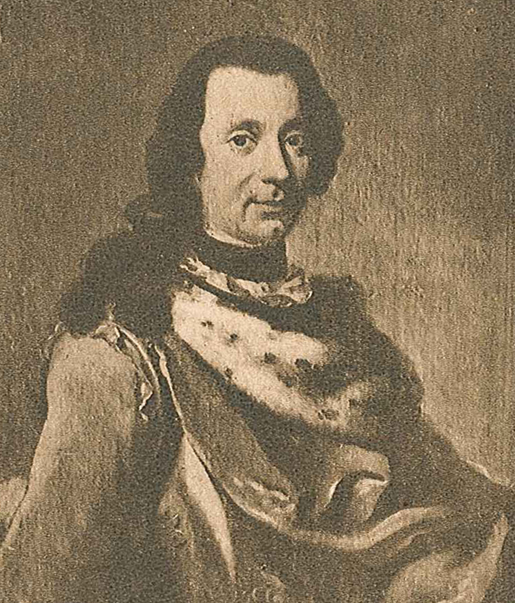 Portrait of Hans Henrik von Liewen den yngre (1704-1781), Swedish count, senator, diplomat and officer.